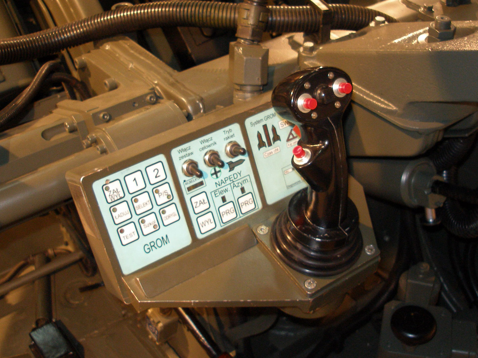 "Grom" control table on polish ZUR-23-2 AA gun.